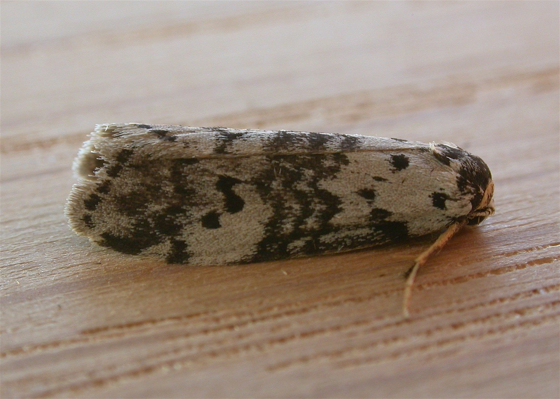 Thallarcha fusa Hampson, 1900, to MV light, Aranda, ACT, 5/6 October 2008